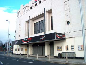 Carling Apollo, Ardwick Green, Manchester. Known since 2010 as O2 Apollo Manchester.